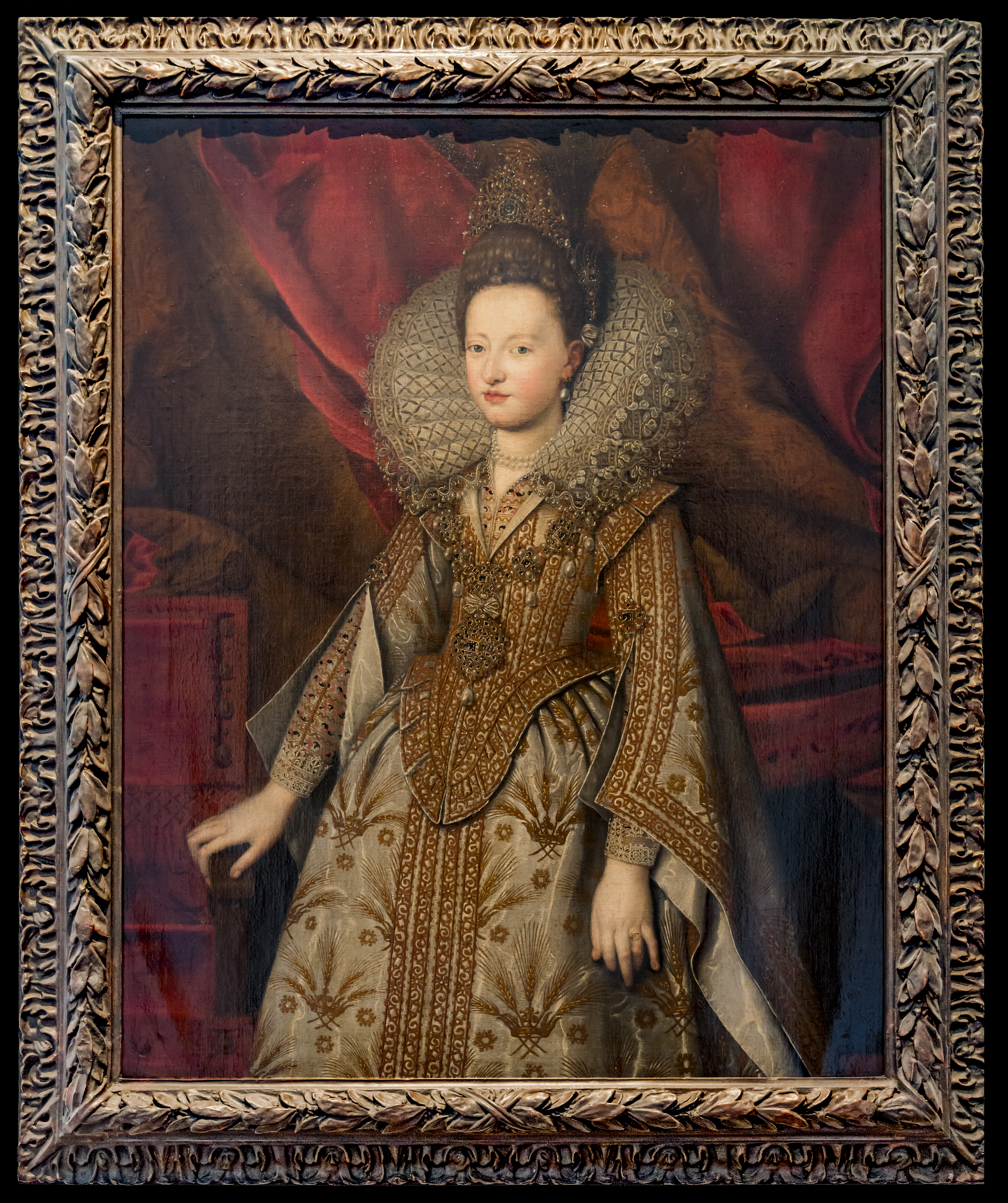 Isabella became never Duchessa because she died before her husband, Alfonso III d'Este, became a Duke.